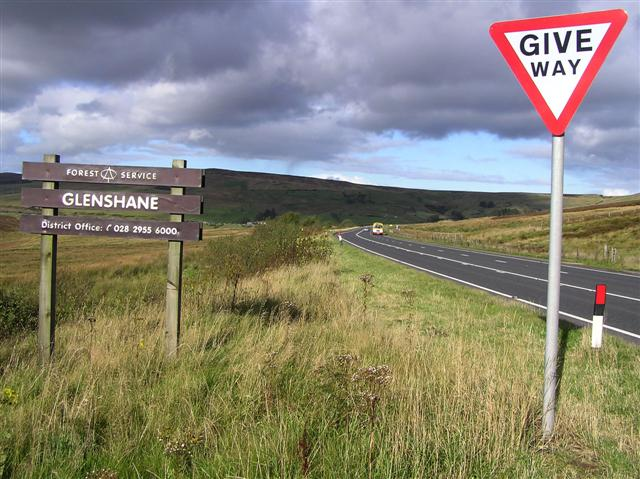 Glenshane Pass It is in a very exposed position and the road runs between Glenshane Mountain and Carntogher. This is the most direct route between Belfast and Derry / Londonderry through the heart of the Sperrins.